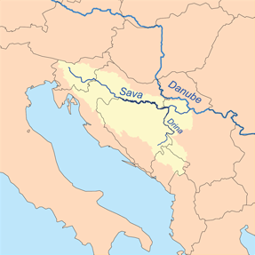 This is a map of the Sava River watershed. I, Karl Musser, created it based on USGS data.